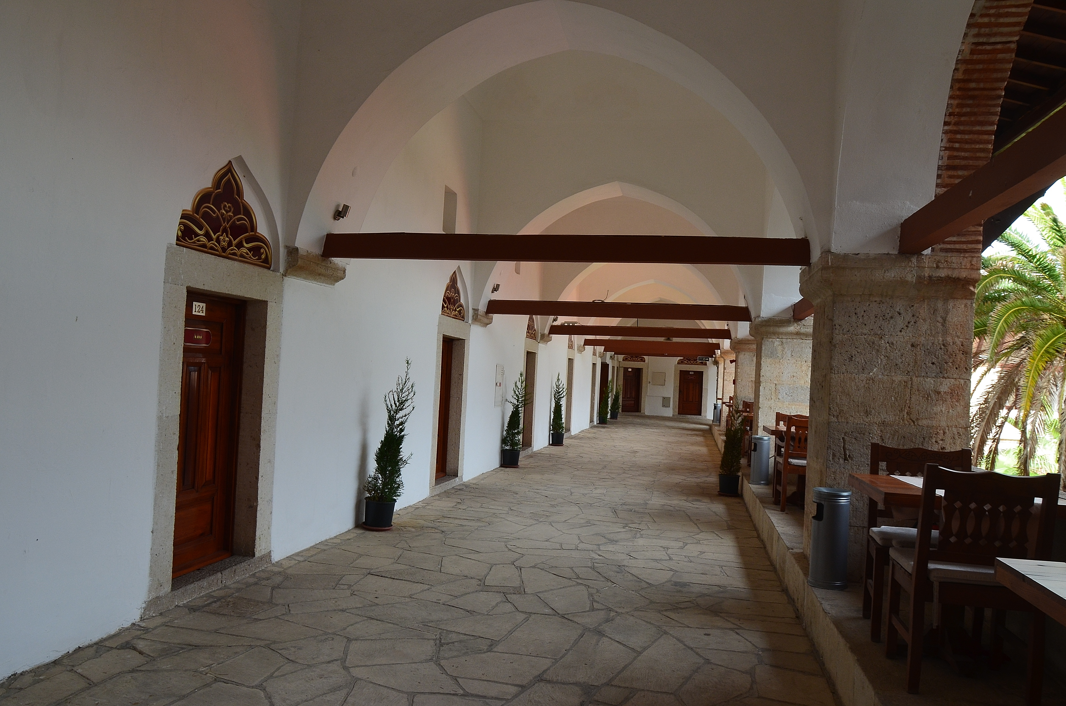 Öküz Mehmed Pasha Caravanserai in Kuşadası, Aydın